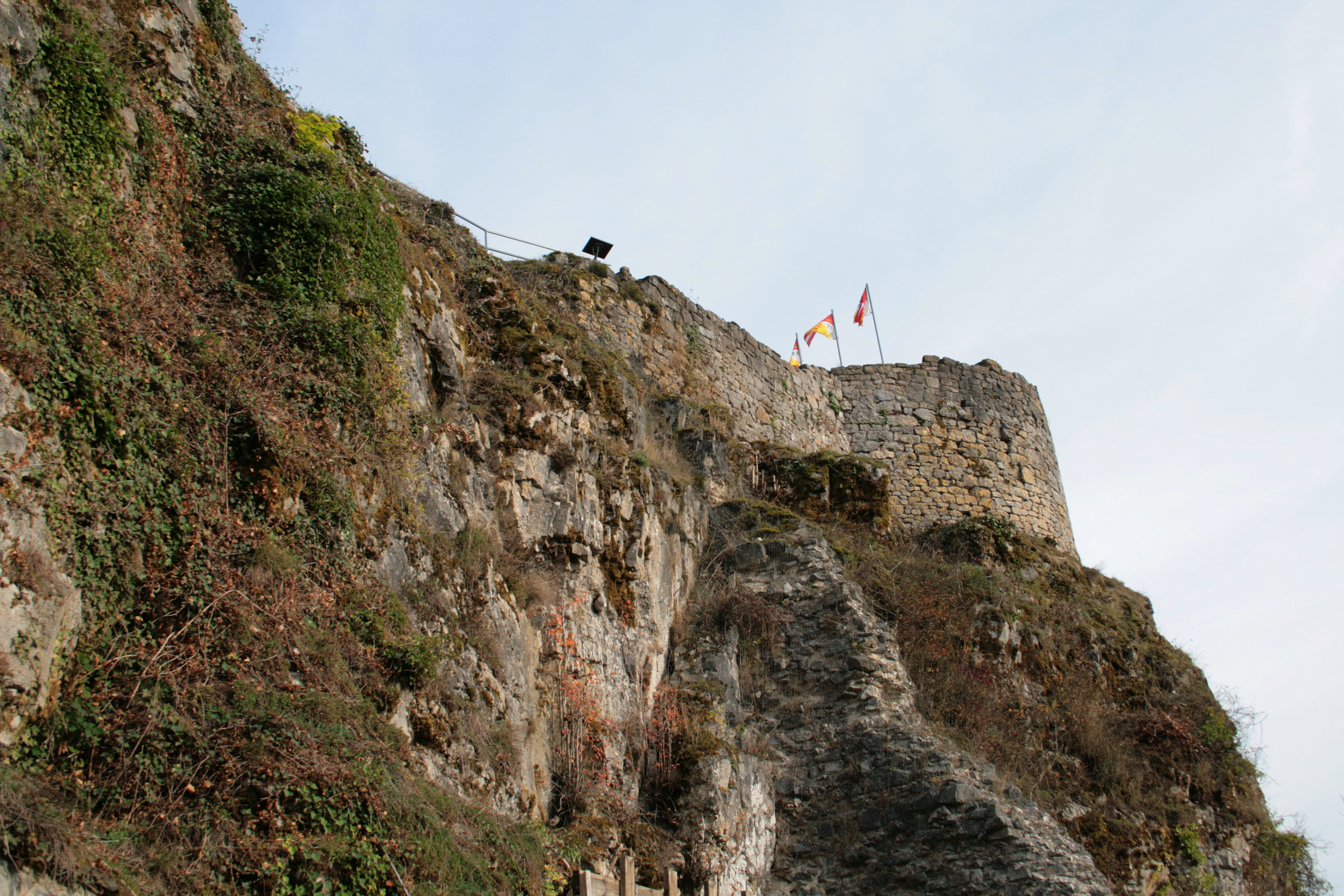 Castle ruins of Logne in Vieuxville, Belgium (IX-XVIIth centuries).